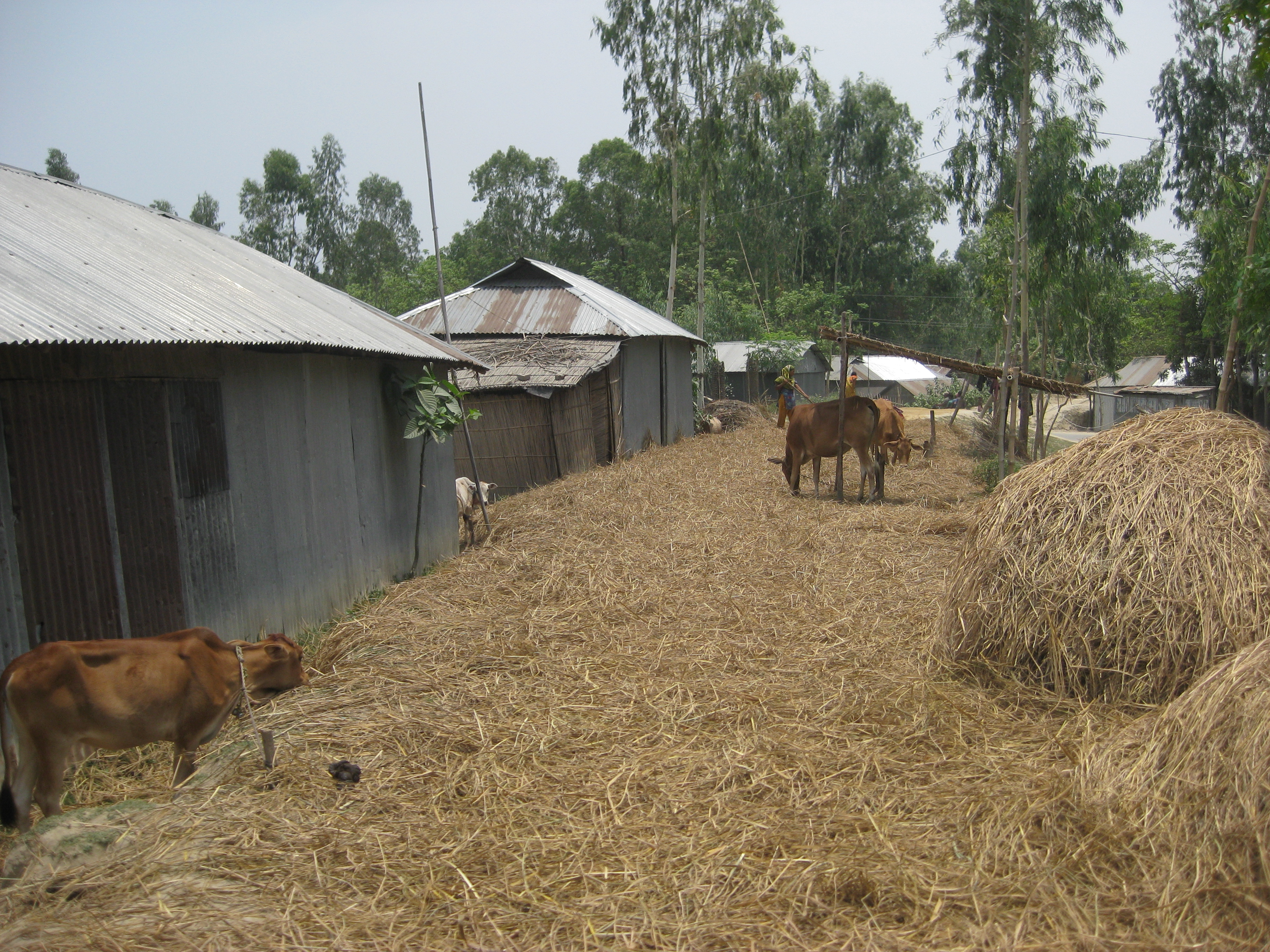 Stack of Hay in Sicha, Gaibandha District